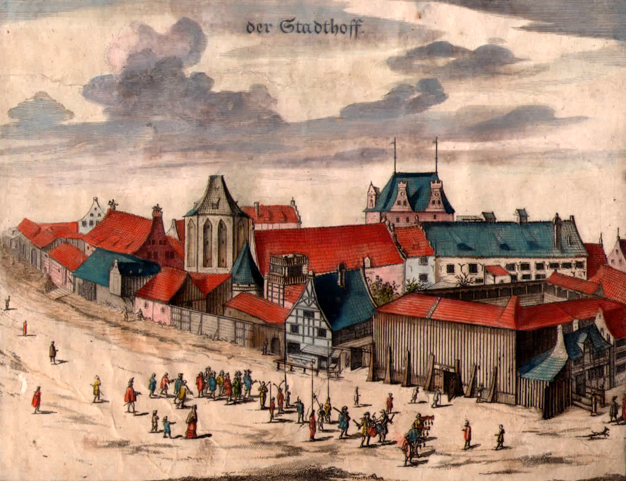 Fencing School in Gdańsk - Peter Willer draft dated 1650